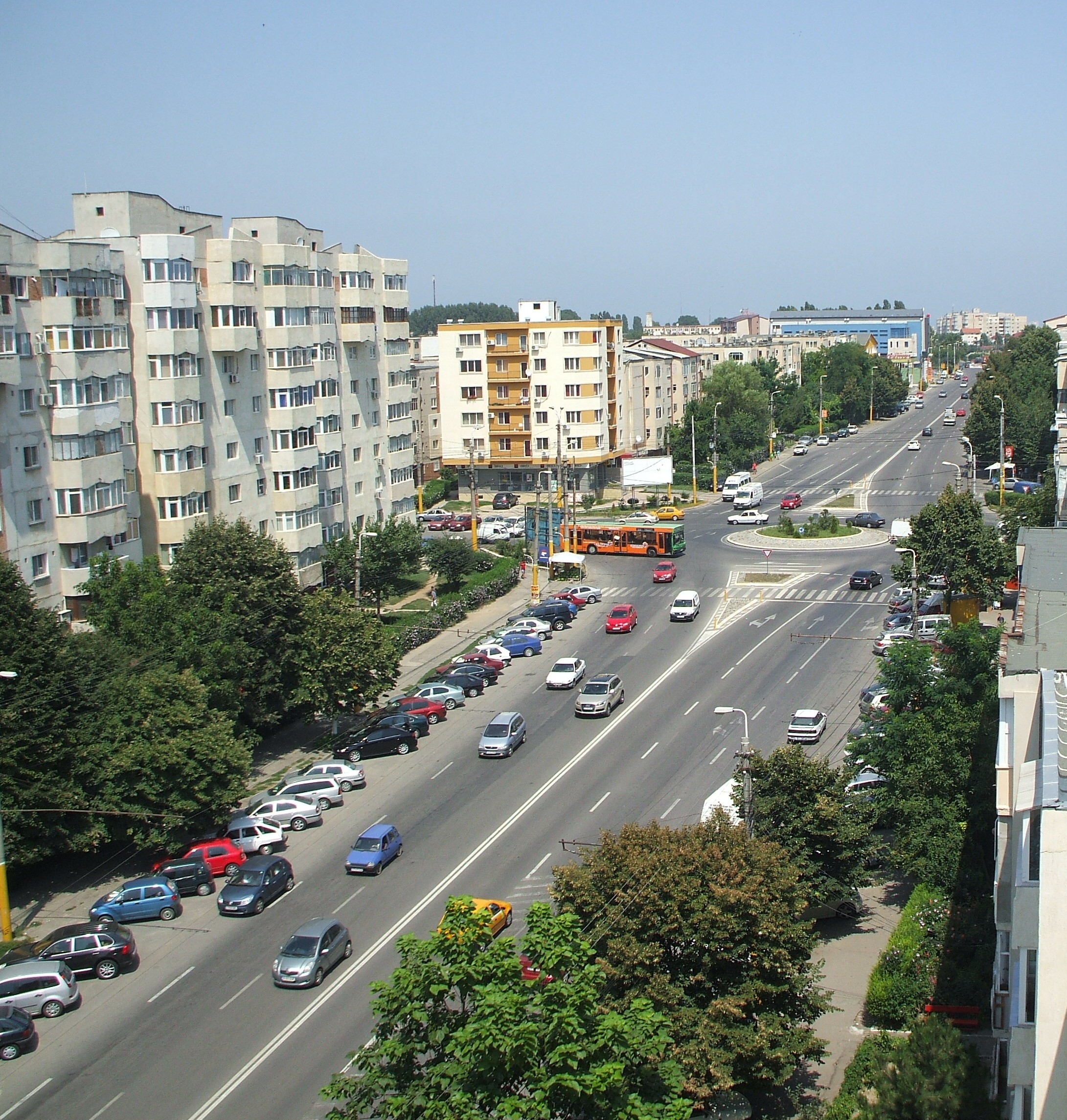 View of Inel II neighbourhood of Constanta, Romania.